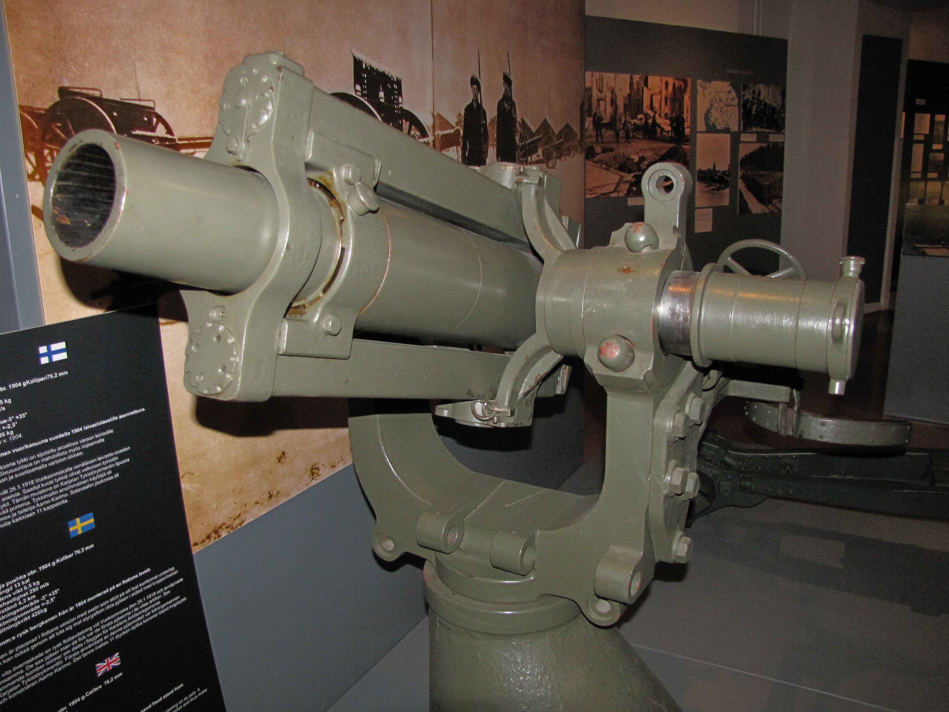 Imperial Russian 76.2 mm model 1904 Obukhov mountain gun on static column mount. Finnish designation 76 VK 04, photographed in Hämeenlinna artillery museum.